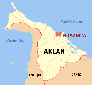 Map of Aklan showing the location of Numancia